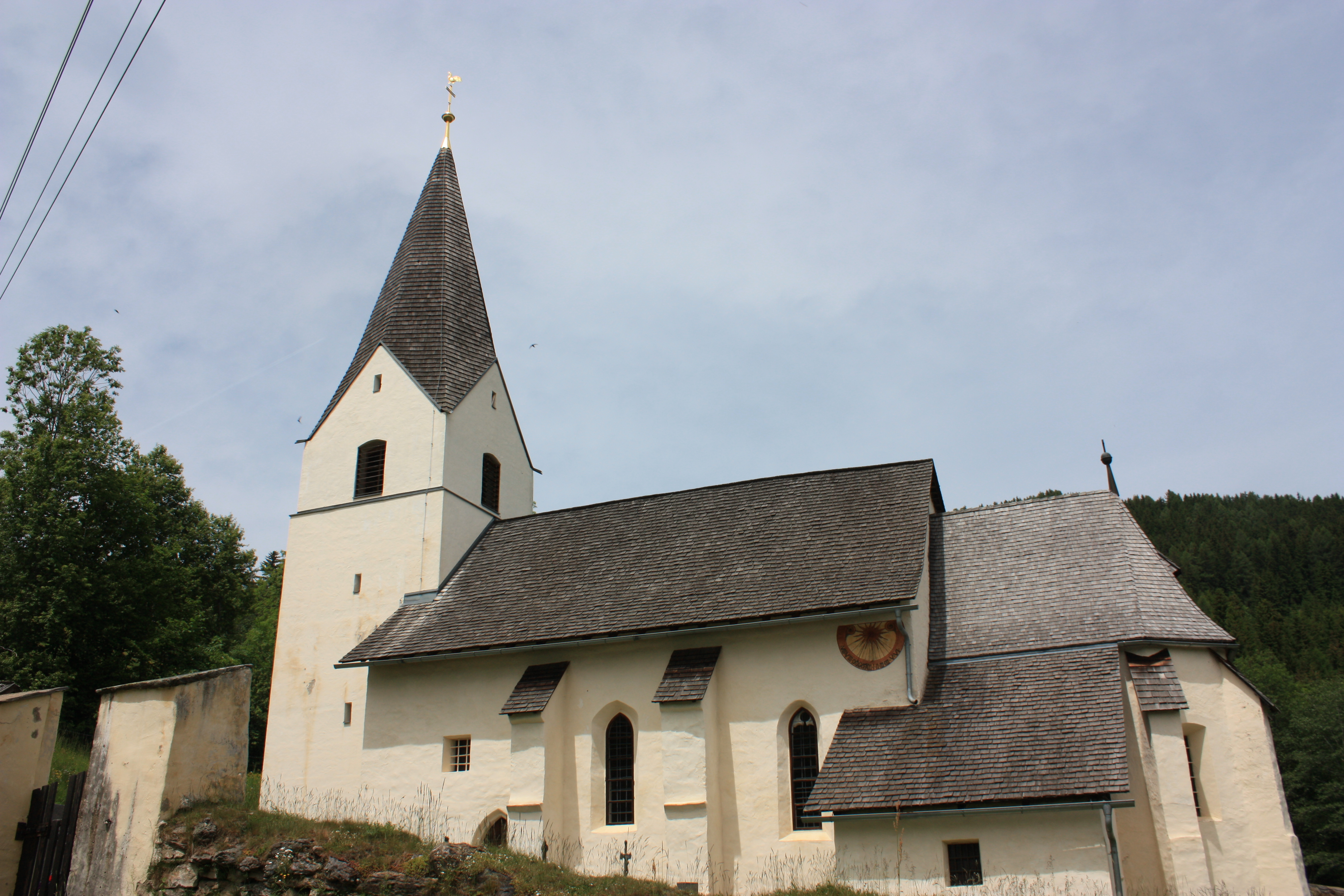 Subsidiary church St Michael in Zosen in the community of Hüttenberg